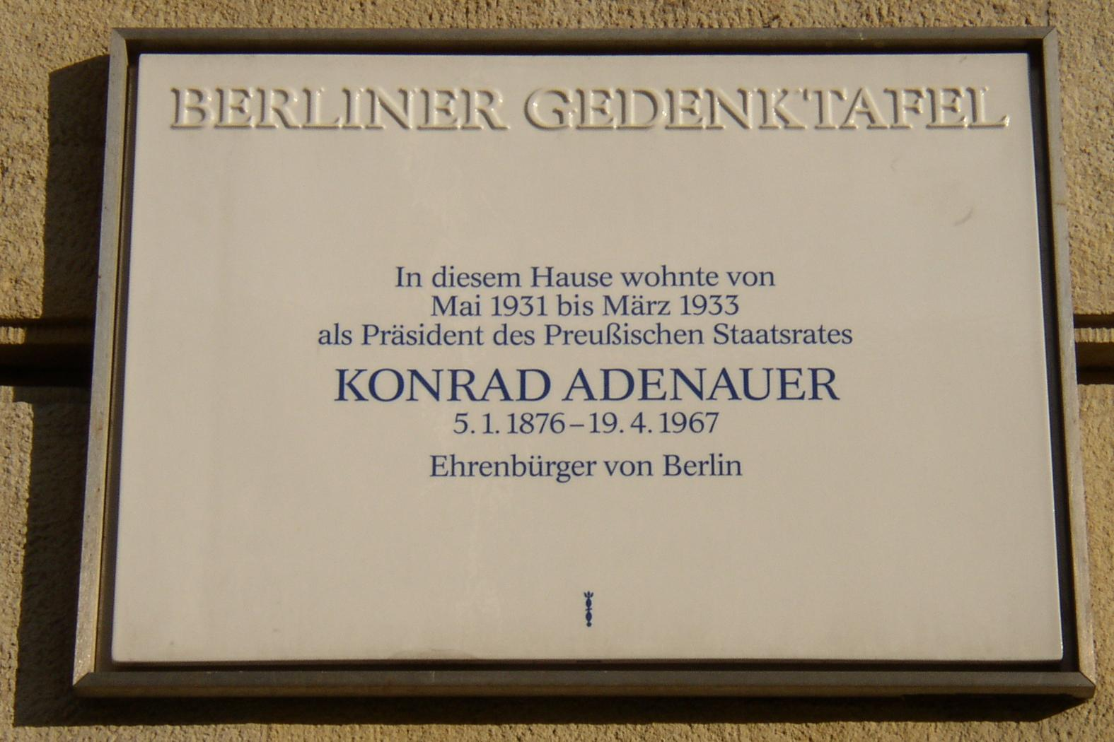 Berlin memorial plaque for Konrad Adenauer in Berlin-Mitte, Germany